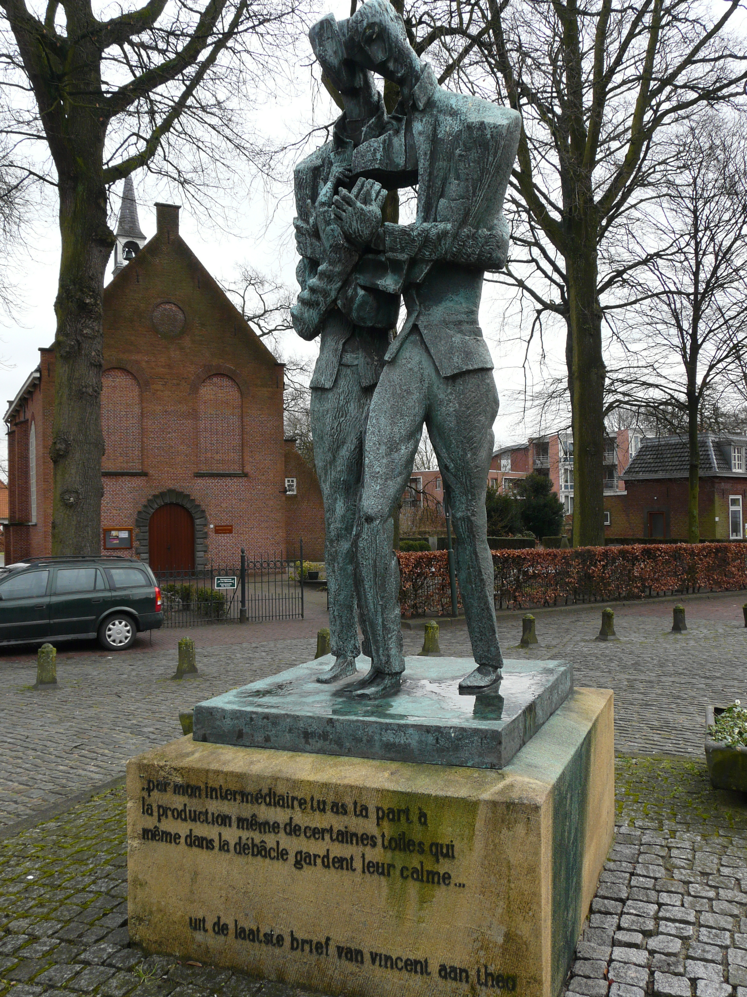 Sculpture Vincent and Theo van Gogh (1964) of Ossip Zadkine at thet Vincent van Goghplein in Zundert